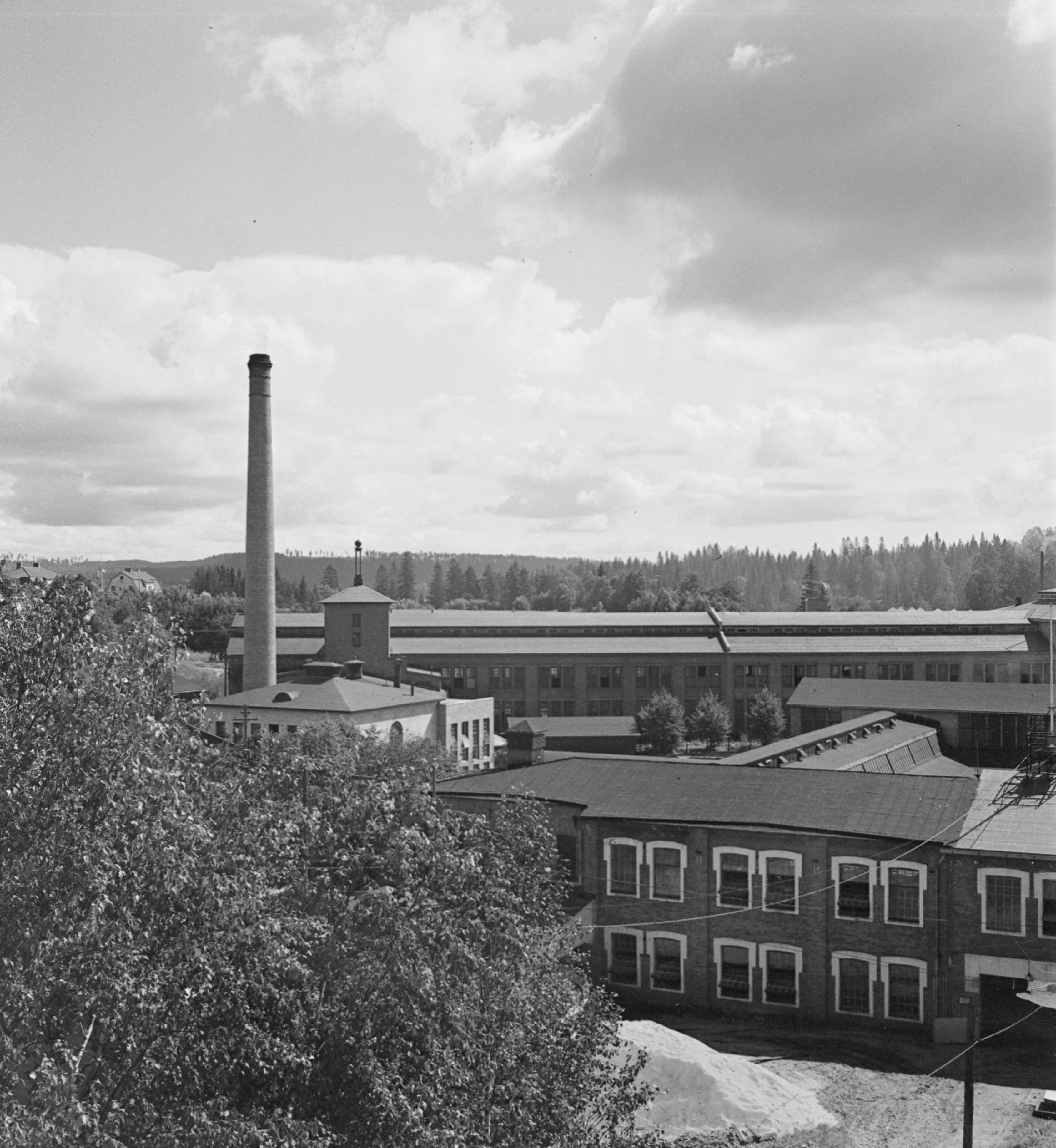 Factory area of Högförsin Tehdas Oy in Karkkila, Finland.